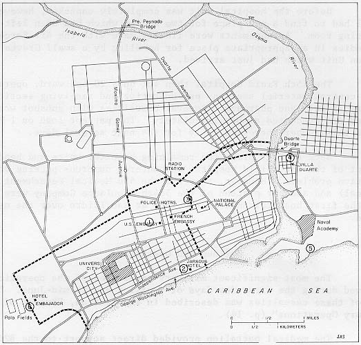 HQ United States Forces and IAPF and quartering of health services during the occupation of Santo Domingo from 1965 to 1966 : 1. Headquarters, U.S. Forces, 2. Headquarters, IAPF, 3. Company D, 307th Medical Battalion, at Colegio Maria Auxiliadora, 4. Company C, clearing station, 5. 15th Field Hospital, 6. Company C at Camp Randall.